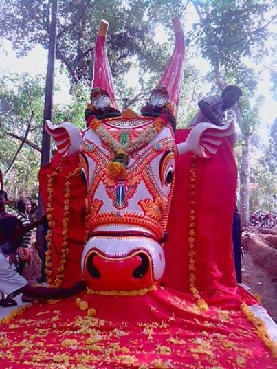 kala thala [head of bull] of edappon kara of padanilam parabrahma temple,nooranad,alappuzha.